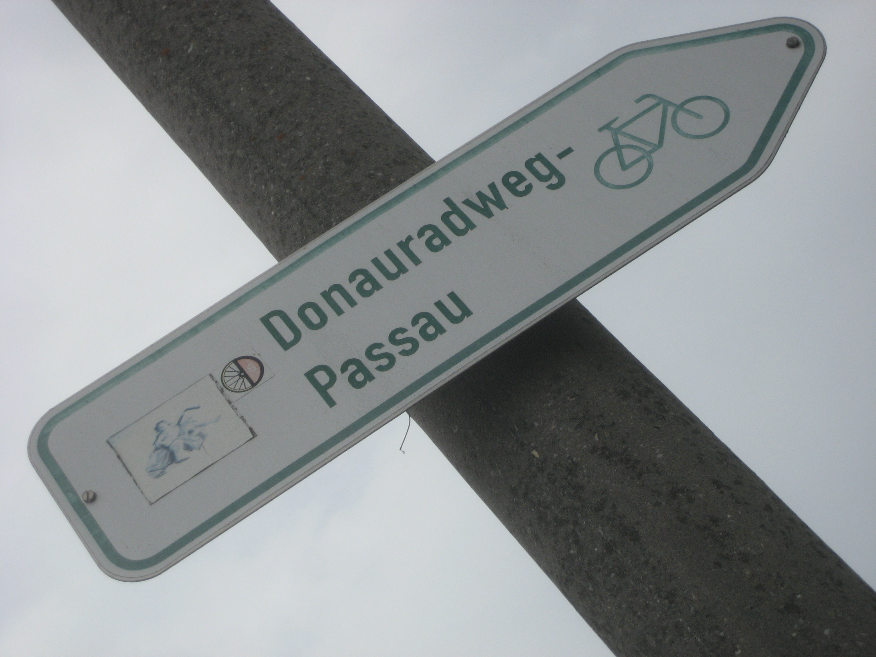 Donauradweg - Passau. Road sign in Regensburg